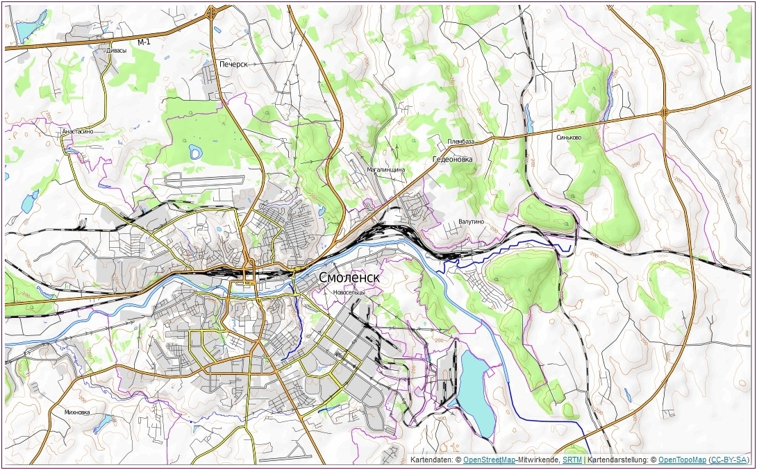 Map of Smolensk This map may be incomplete, and may contain errors. Don't rely solely on it for navigation.